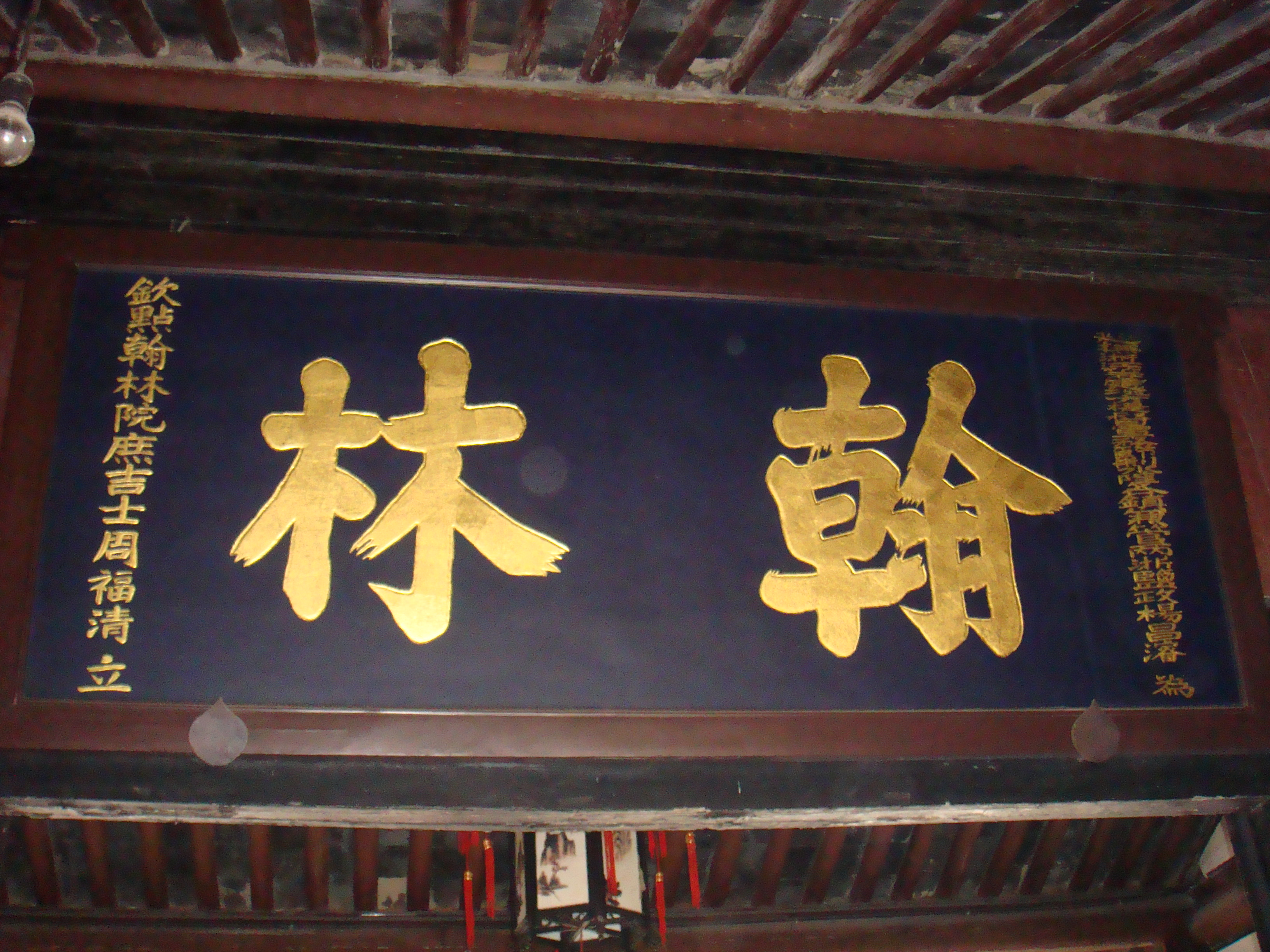 Hanlin Plaque of Zhou Fuchin（1838-1904）, made by Imperial Inspector of Zhejiang, Yang Changjun（1826-1897）.